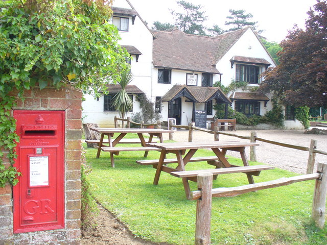 The Abinger Hatch Popular village pub, with large beer garden, in the Surrey Hills.